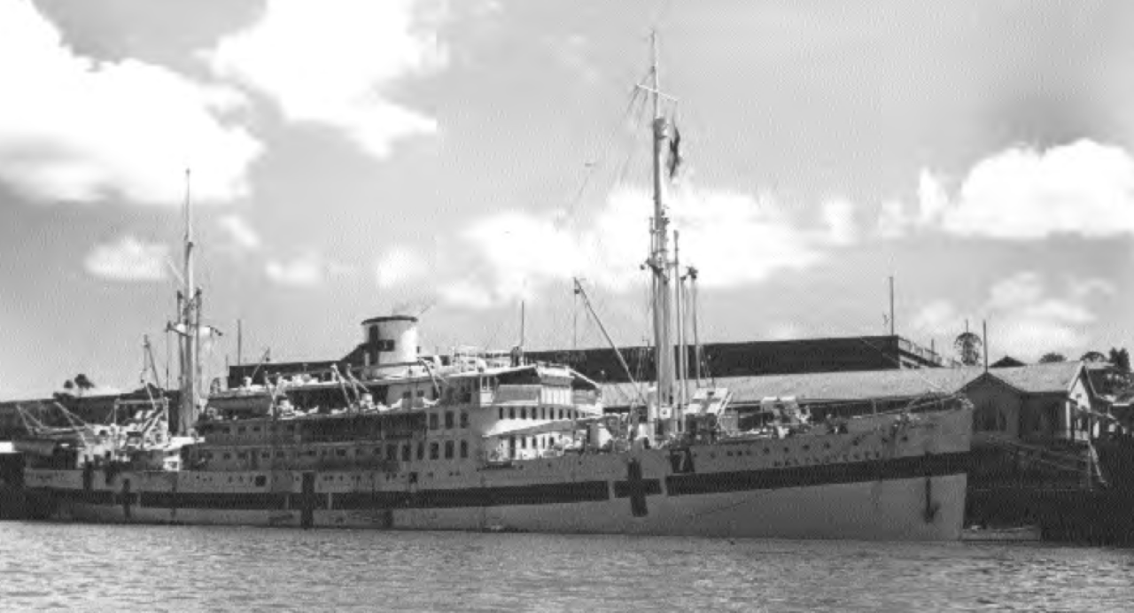 Dutch liner MAETSUYCKER as Southwest Pacific Area interbase hospital ship.